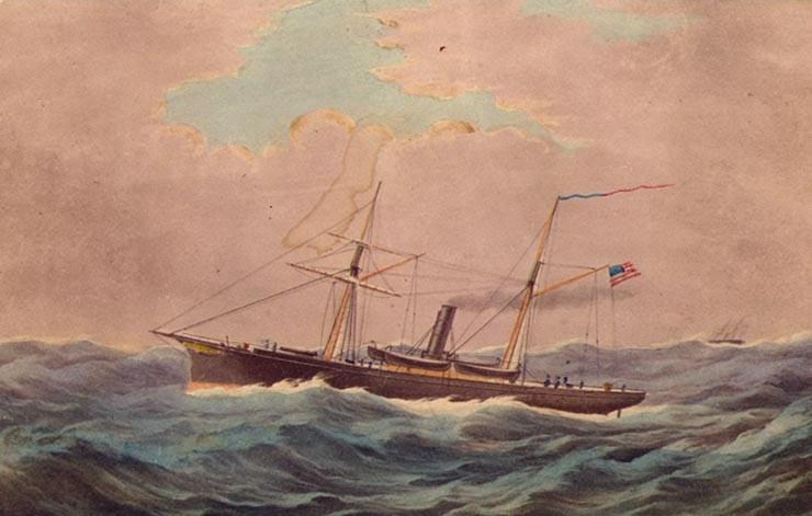 Colored print of 1860s vintage, mounted on a Carte de Visite, depicting the ship under steam at sea. Donation of Rear Admiral D.L. Braine, USN, who commanded the Monticello during the first part of the Civil War. U.S. Naval Historical Center Photograph.